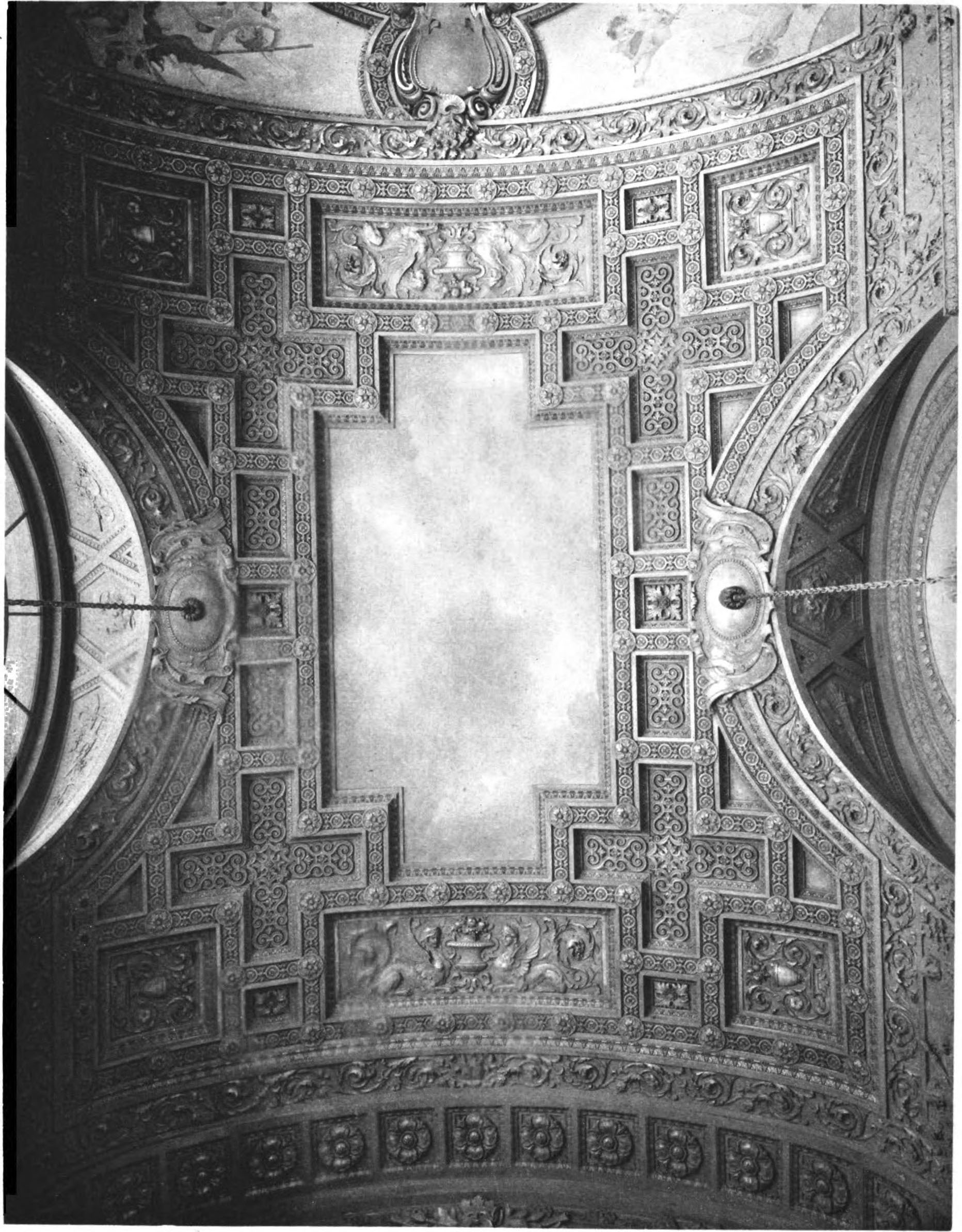 Main foyer ceiling secondary panel of the New Theatre on Central Park West in New York City.